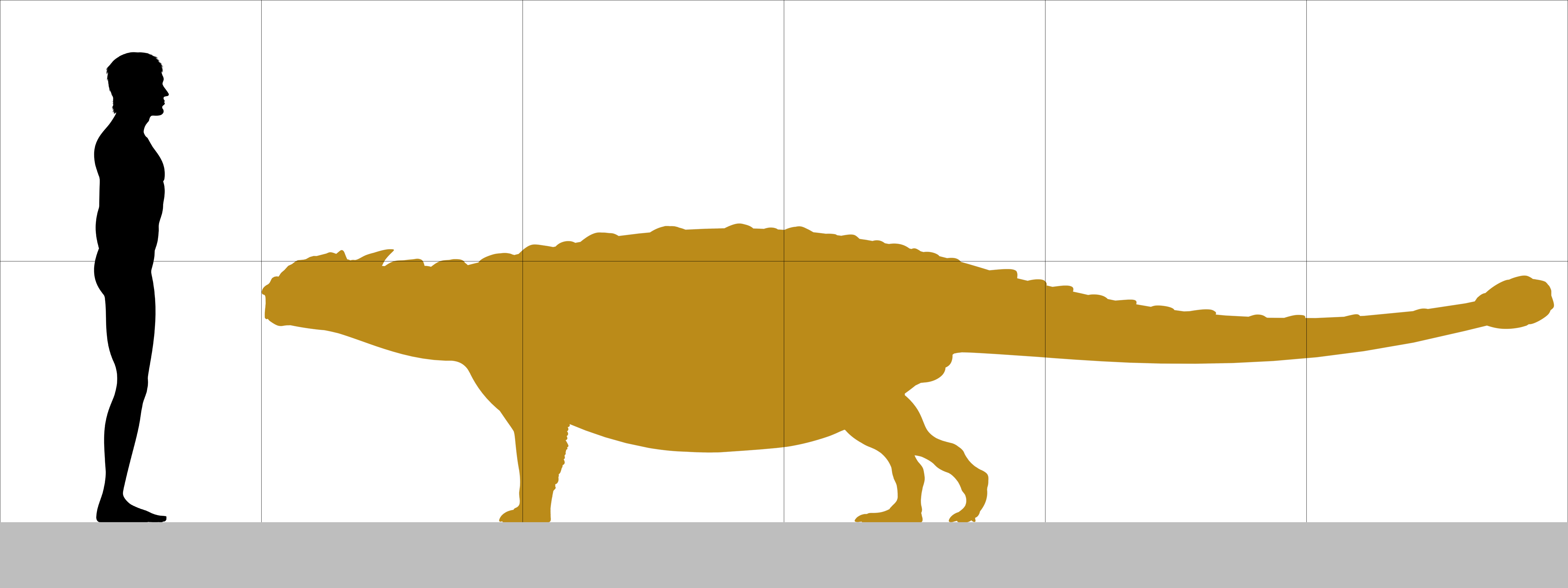 Size comparison between the ankylosaurin Talarurus and a 1.8 tall man; 5 meters following Holtz 2012.[1] ______________________________________________________________________________________________